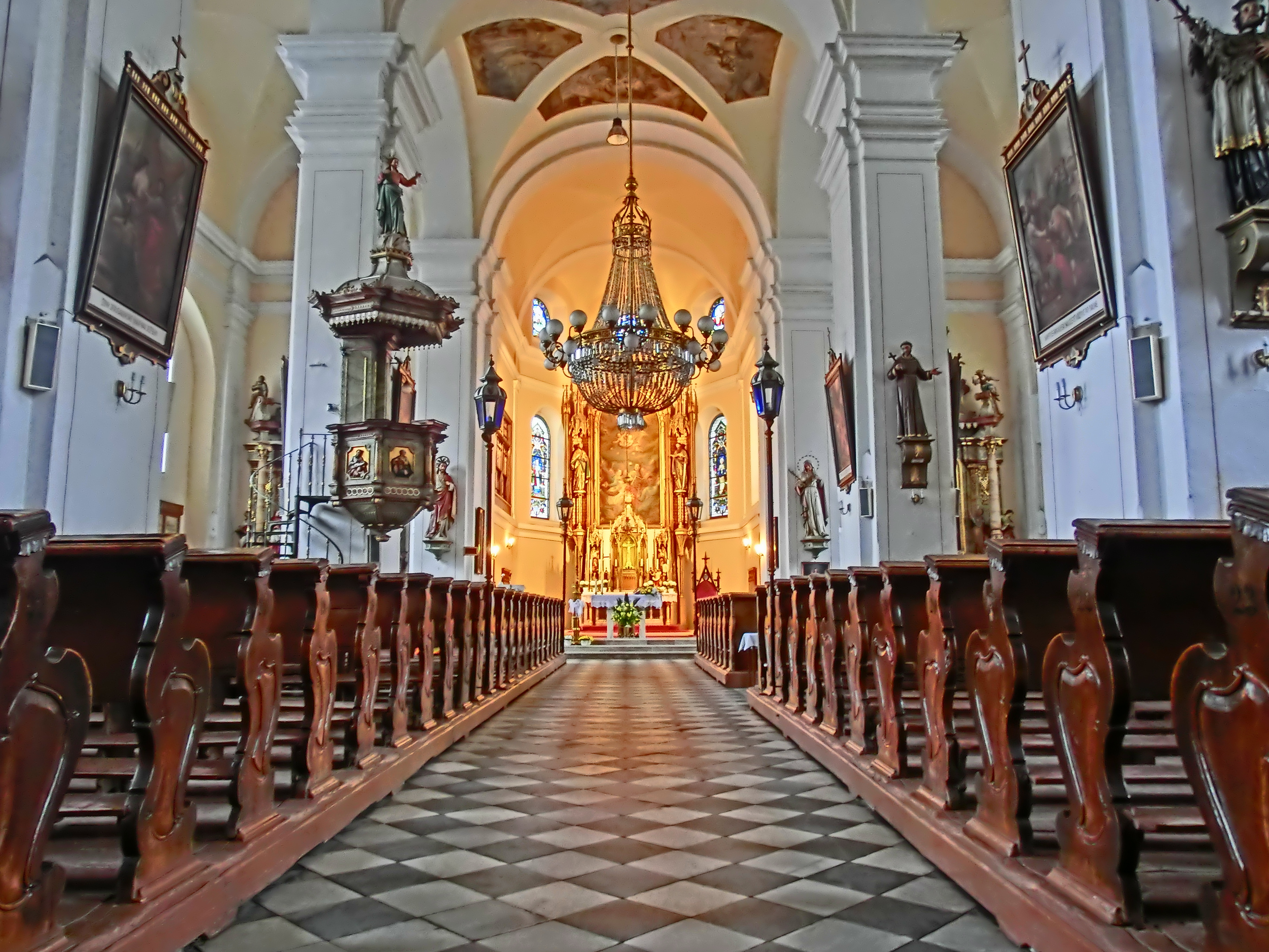 Interior Assumption Church Jeseník